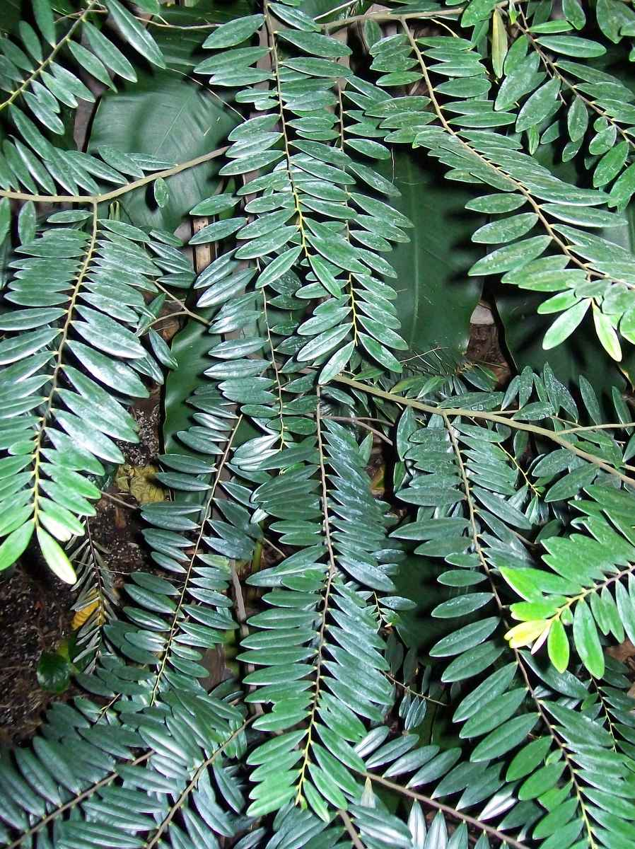 Diospyros seychellarum, Royal Botanic Gardens, Sydney.